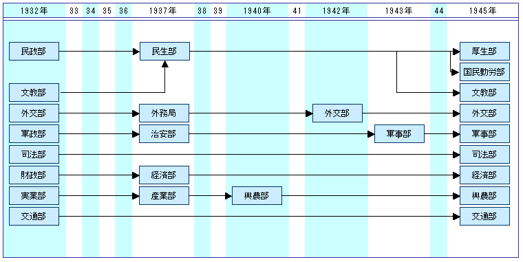 ManchukuoStateCouncil_Section